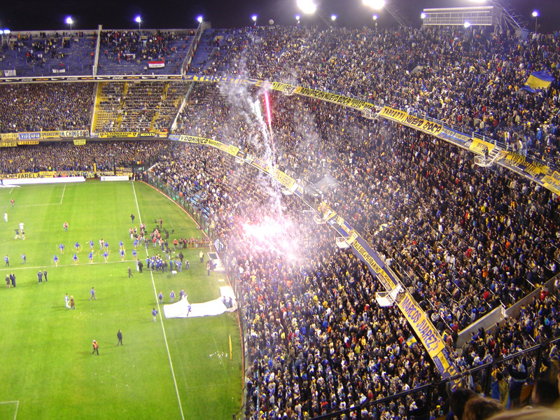 first match of Recopa Sudamericana of 2006 between Boca Juniors and São Paulo in Alberto J. Armando stadium, known as La Bombonera. One of the most important south-american derbies. The game ended 2 to 1. View of the Boca Juniors supporters.